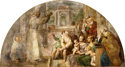 Didacus of Alcalá at the church of San Giacomo degli Spagnoli in Rome